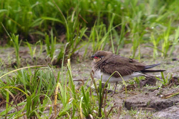 Adult Collared Pratincole (Glareola pratincola), photographed outside Stockholm, Sweden.